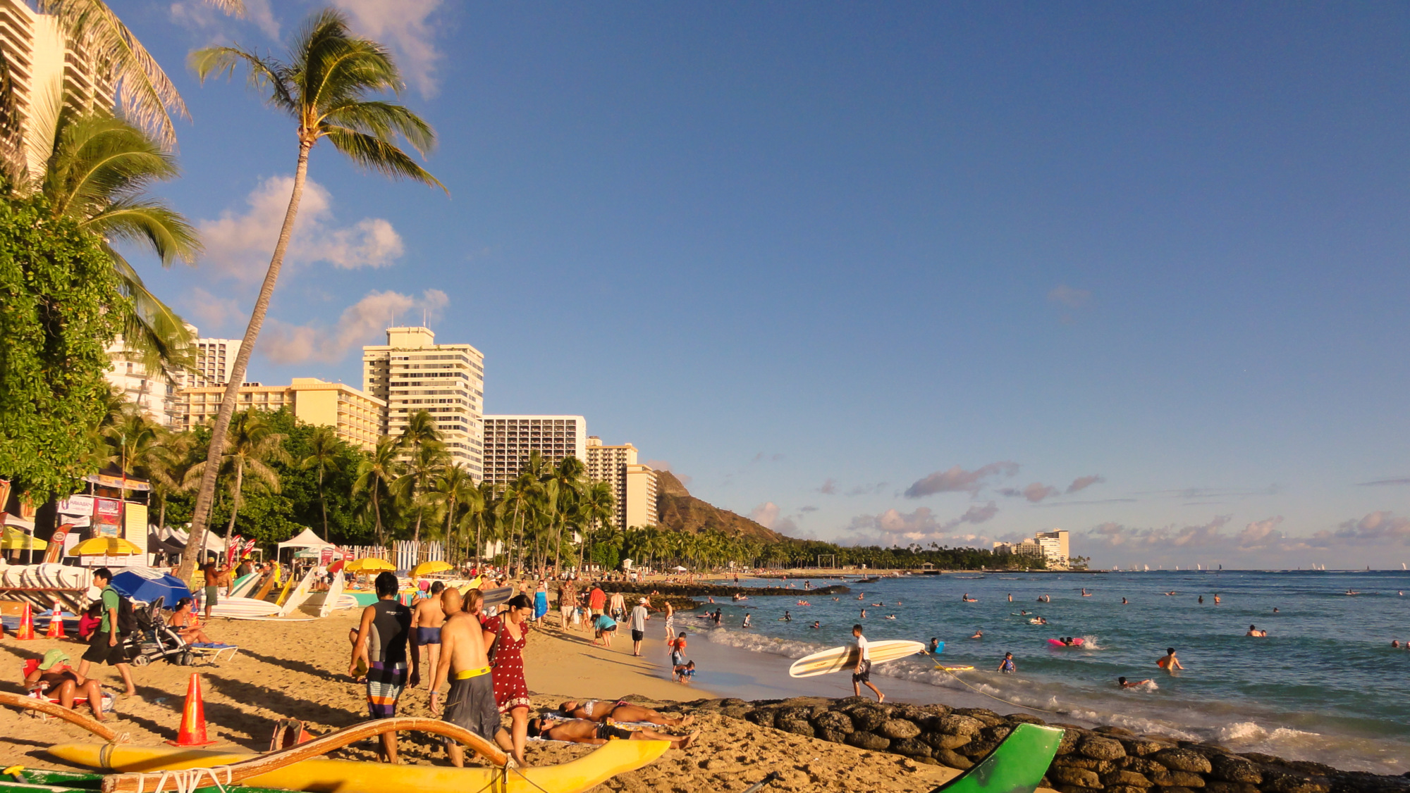 Waikiki Beach, Honolulu - Hawaii